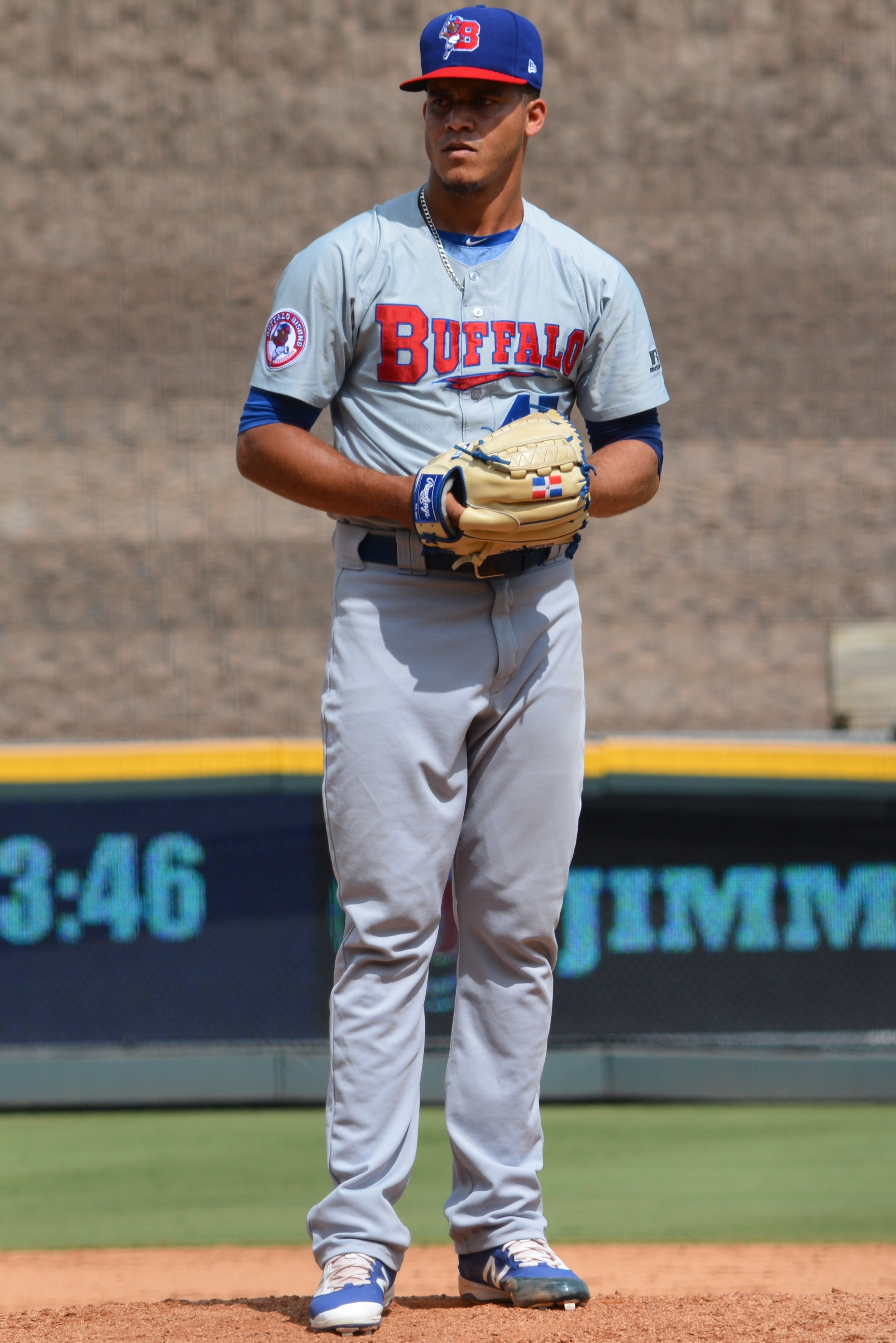 Jose Fernandez on the mound with the Buffalo Bisons at Coolray Field in Gwinnett, Georgia in August 2018